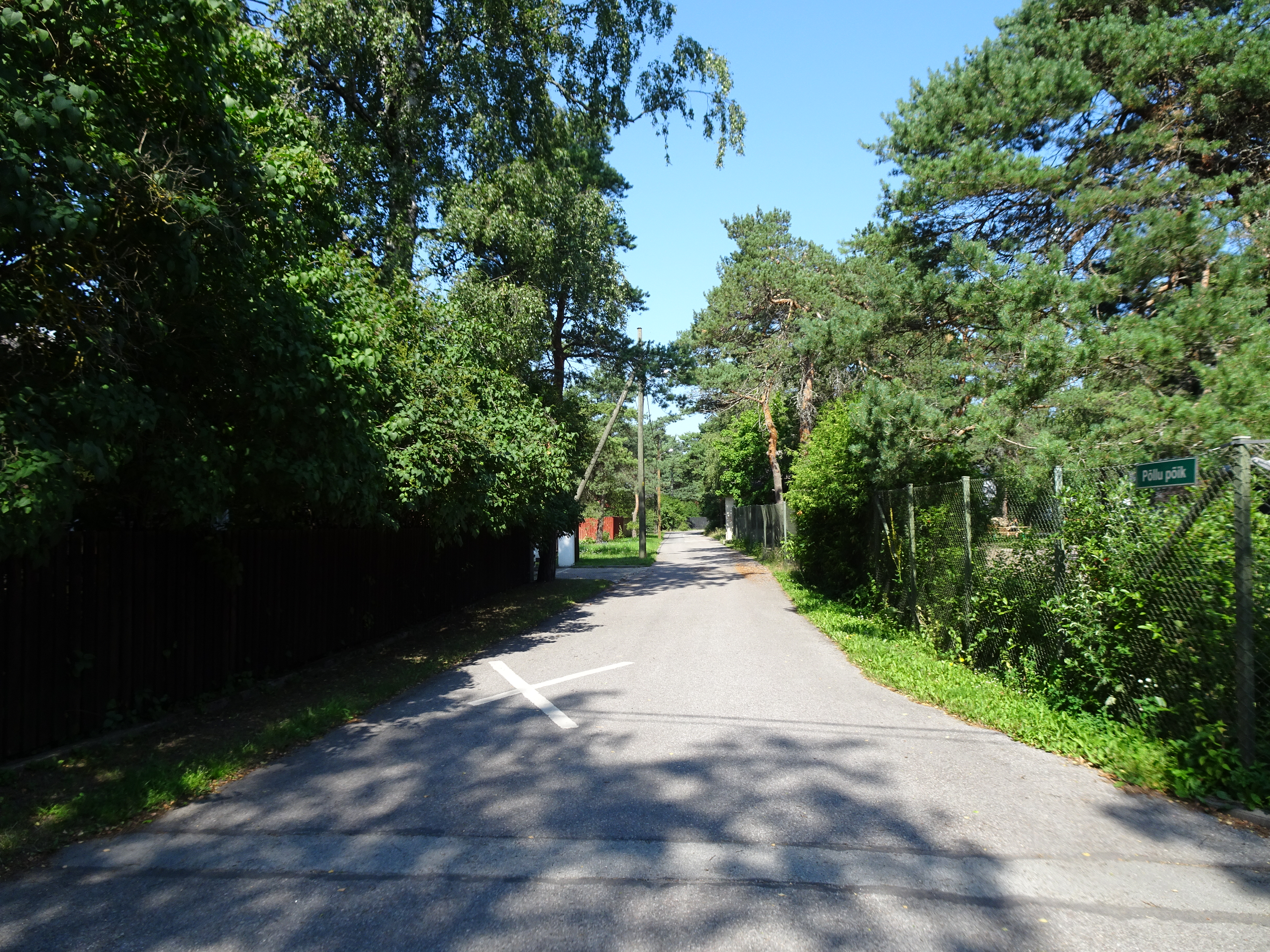 Põllu Cross Street in Tallinn, Estonia